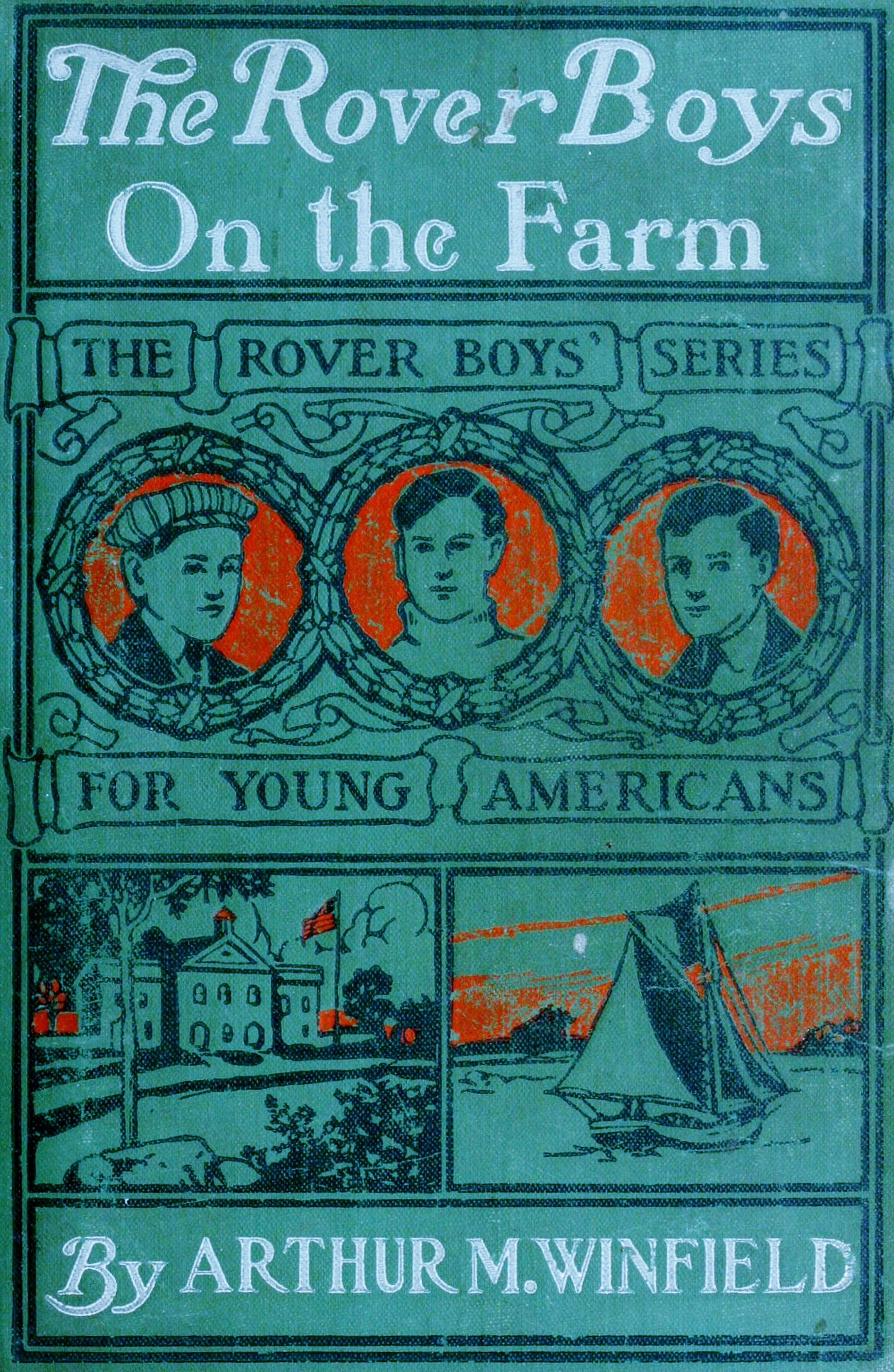 The Rover Boys on the Farm, by Edward Stratemeyer, 1st edition cover